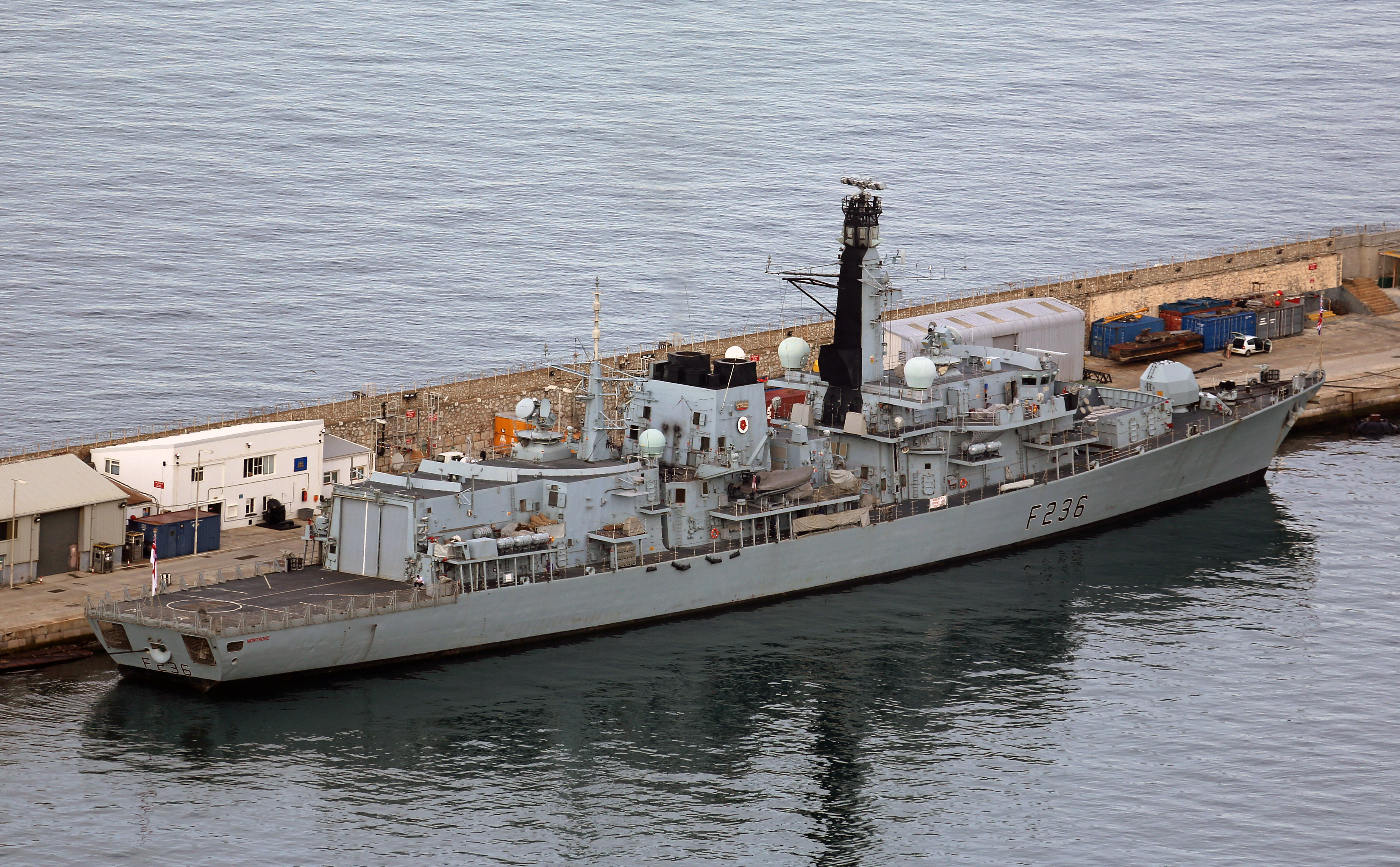 HMS Montrose, HMS Northumberland, HMS Bulwark and RFA Mounts Bay together with elements of 45 Commando Royal Marines at HM Naval Base, Gibraltar. The deployment known as Cougar 12 is a long planned routine Royal Navy’s Response Force Task Group (RFTG) which will see ships transit through the Western Mediterranean and Adriatic.